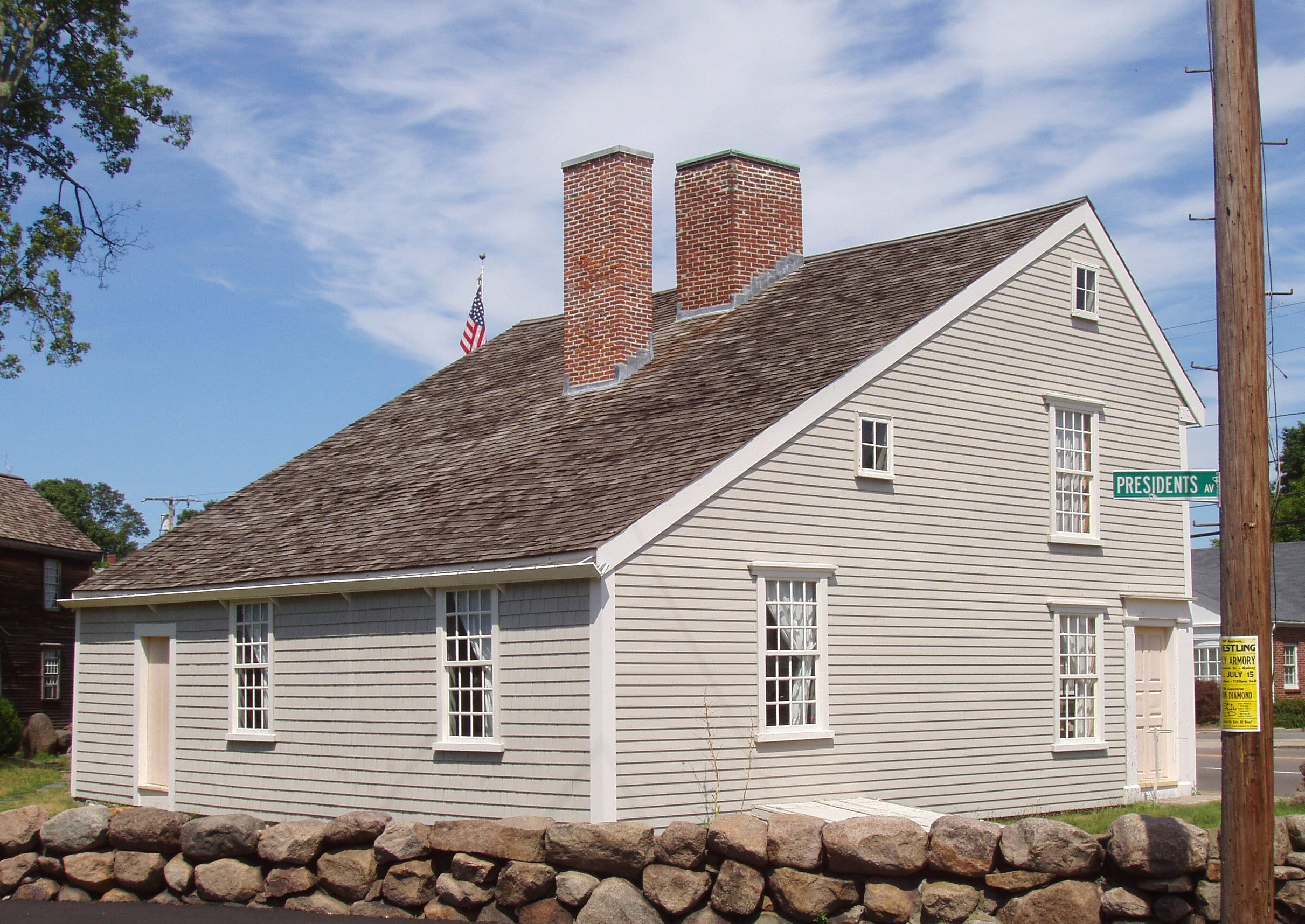 Birthplace of U. S. President John Quincy Adams, in Quincy, Massachusetts. This house is now part of the Adams National Historical Park operated by the National Park Service, and is open to the public.